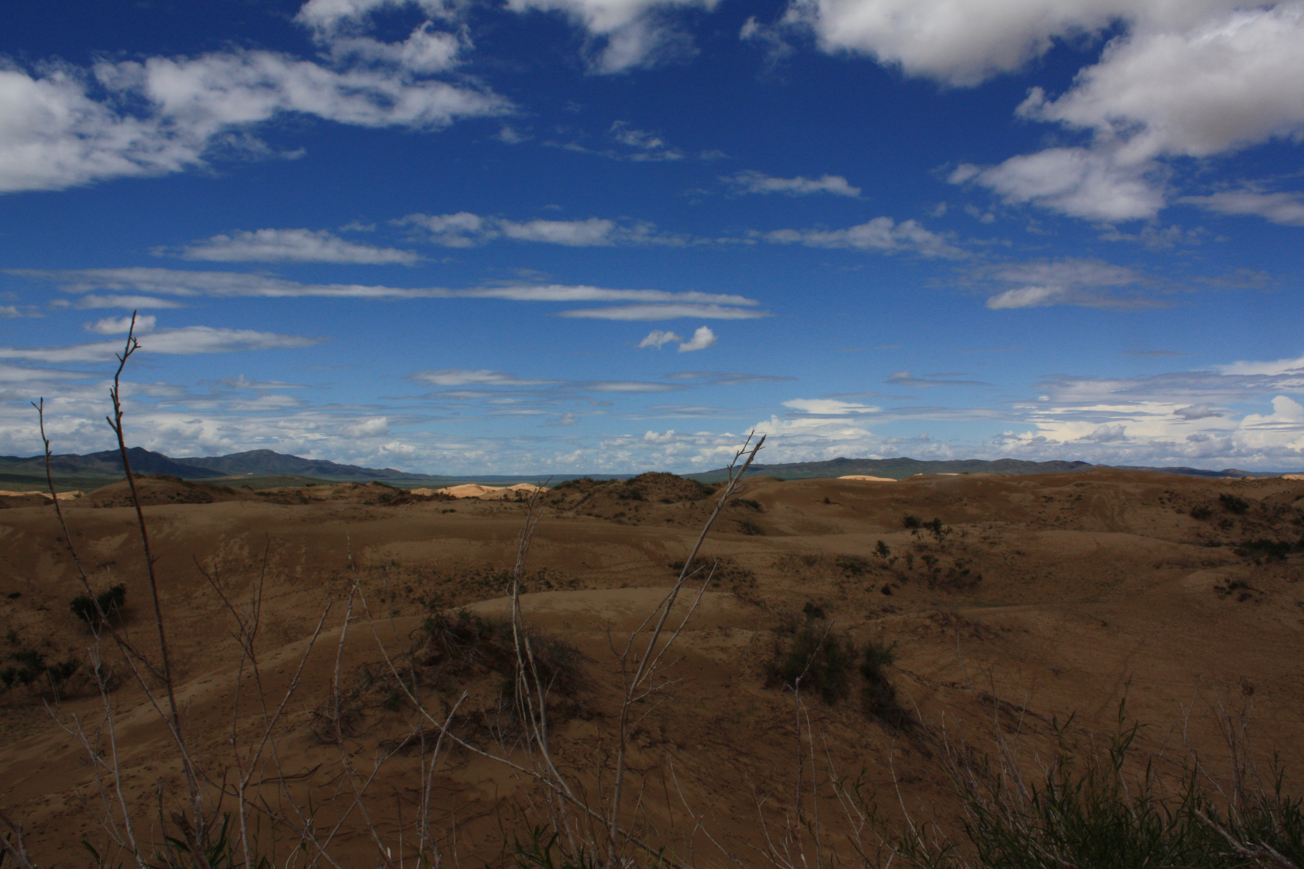 Mongolian steppe in central mongolia (150 km of Ulaanbataar)